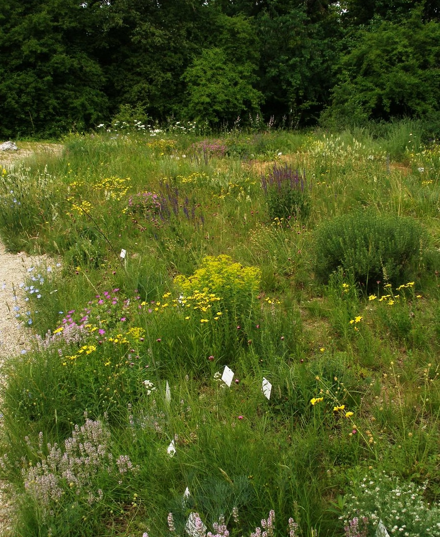 dry meadow with pannonical flora in area dedicated to eastern Austrian vegetation. photo authors own work